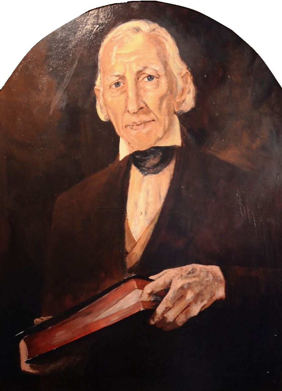 Joseph Smith Senior, the father of Joseph Smith, the founder of the Latter Day Saint movement. Joseph Sr. was also one of the Eight Witnesses of the Book of Mormon, which Mormons believe was translated by Joseph Jr. from the Golden Plates. In 1833 Joseph Sr. was named the first Presiding Patriarch of the Church of Christ, which was renamed to the Church of the Latter Day Saints.